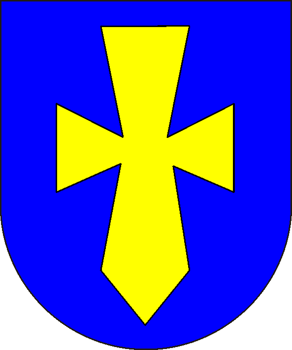 coats of arms of the county of Delmenhorst (1619)